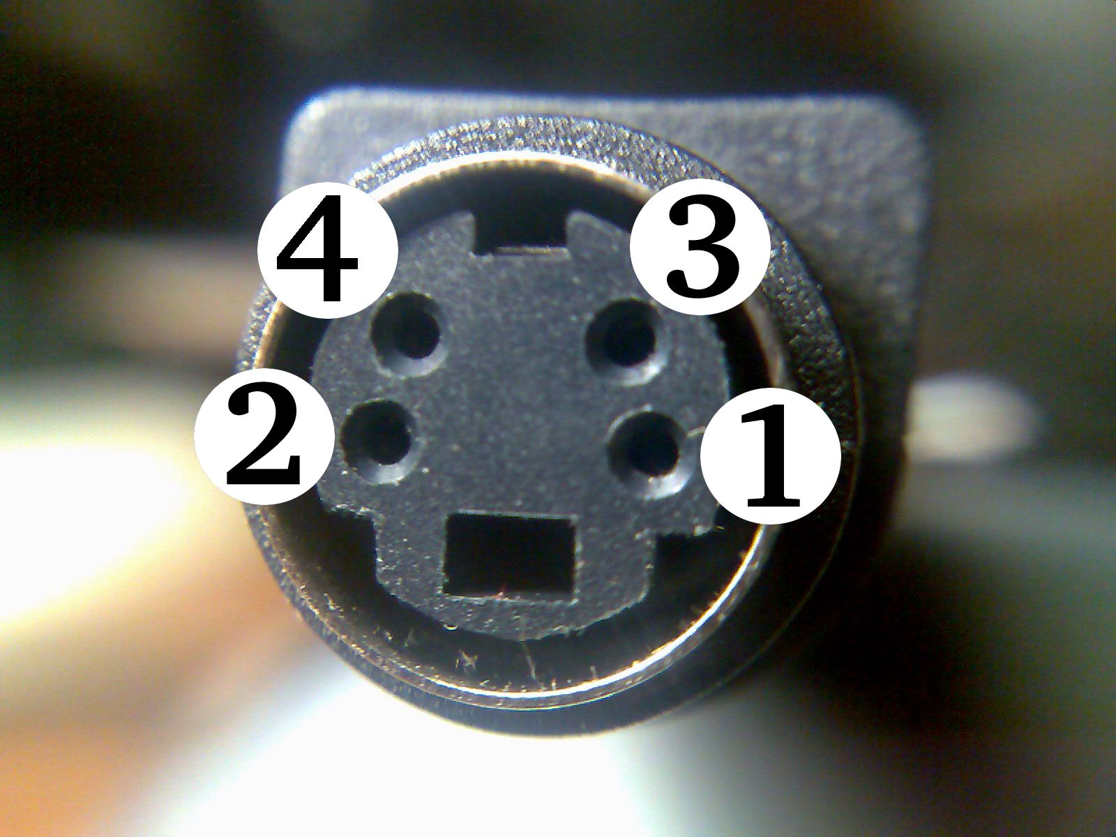 Close-up of S-video female connector